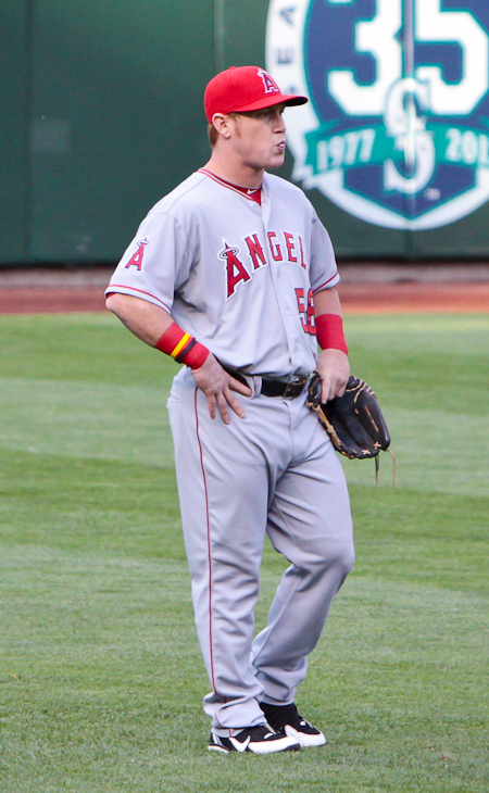 Kole Calhoun